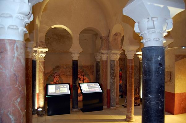 Insides of Caliphs Baths, in Córdoba (Spain).